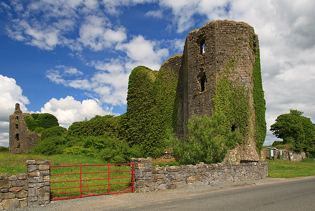 Castles of Connacht: Ballintober, Roscommon